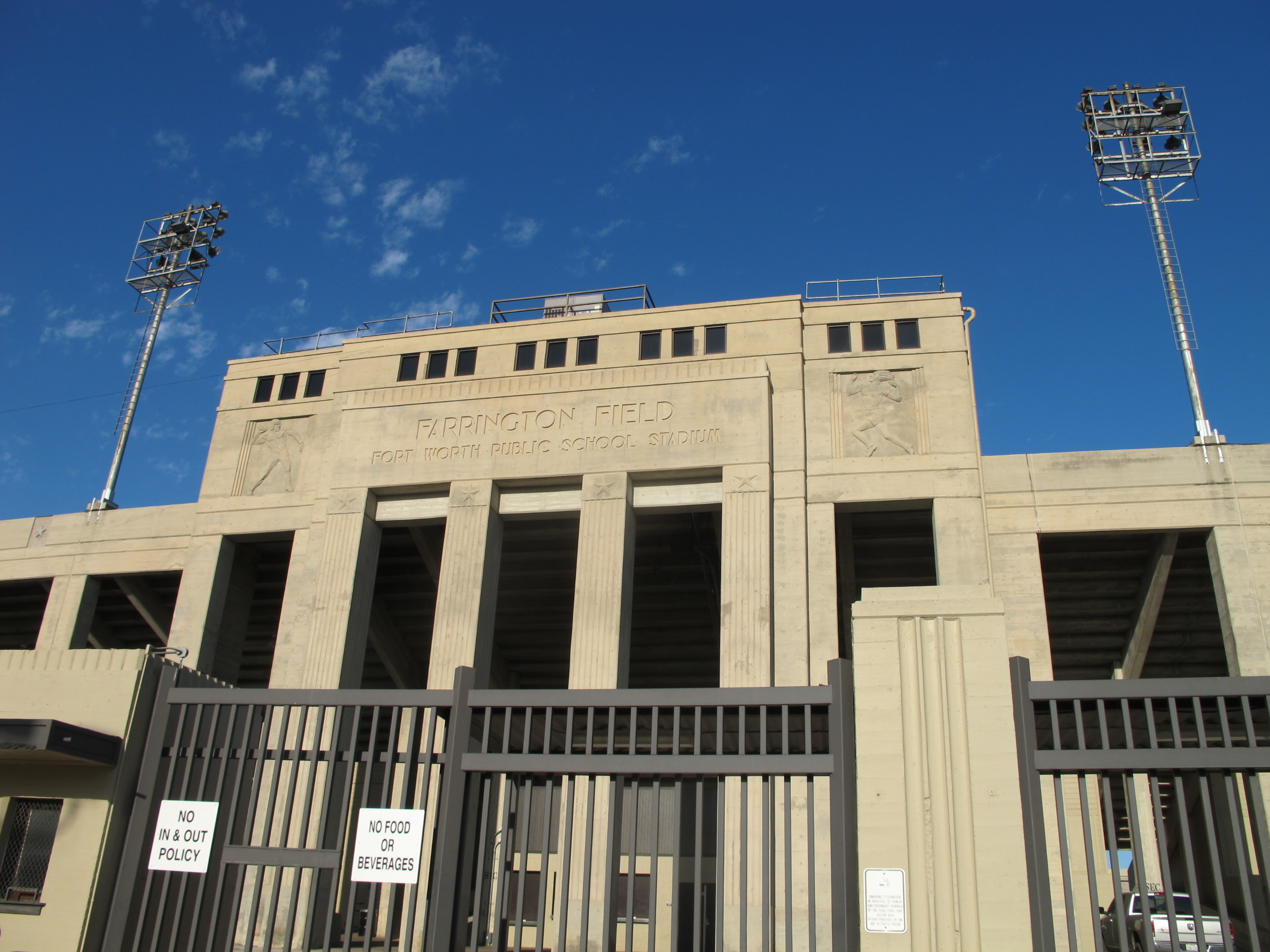 Waco's Farrington Field Exterior